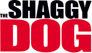 The official franchise logo of The Shaggy Dog as released in 2006.